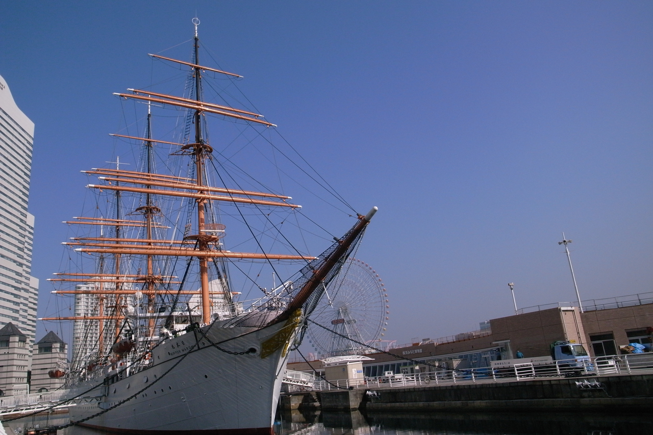 Nippon Maru memorial park in Minatomirai 21, Yokohama, Kanagawa, Japan.